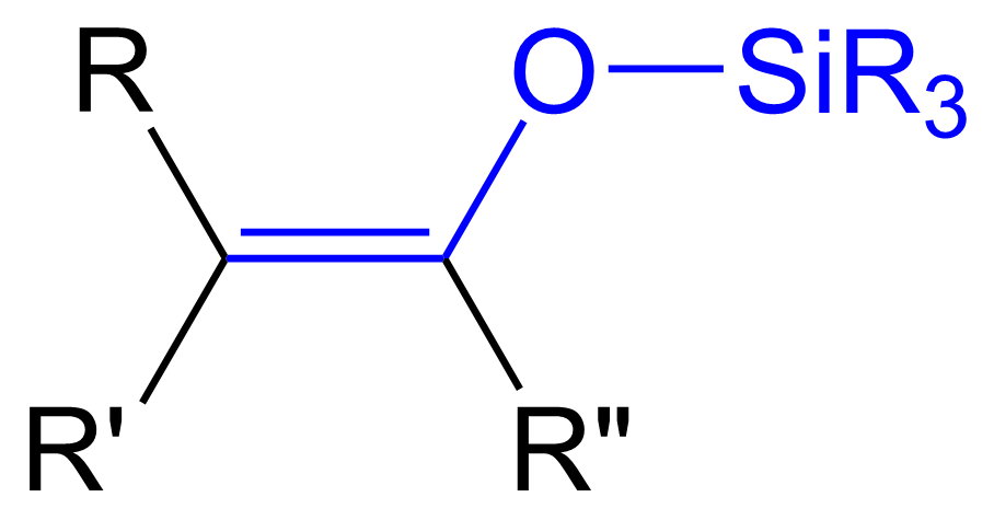 Silyl enol ether